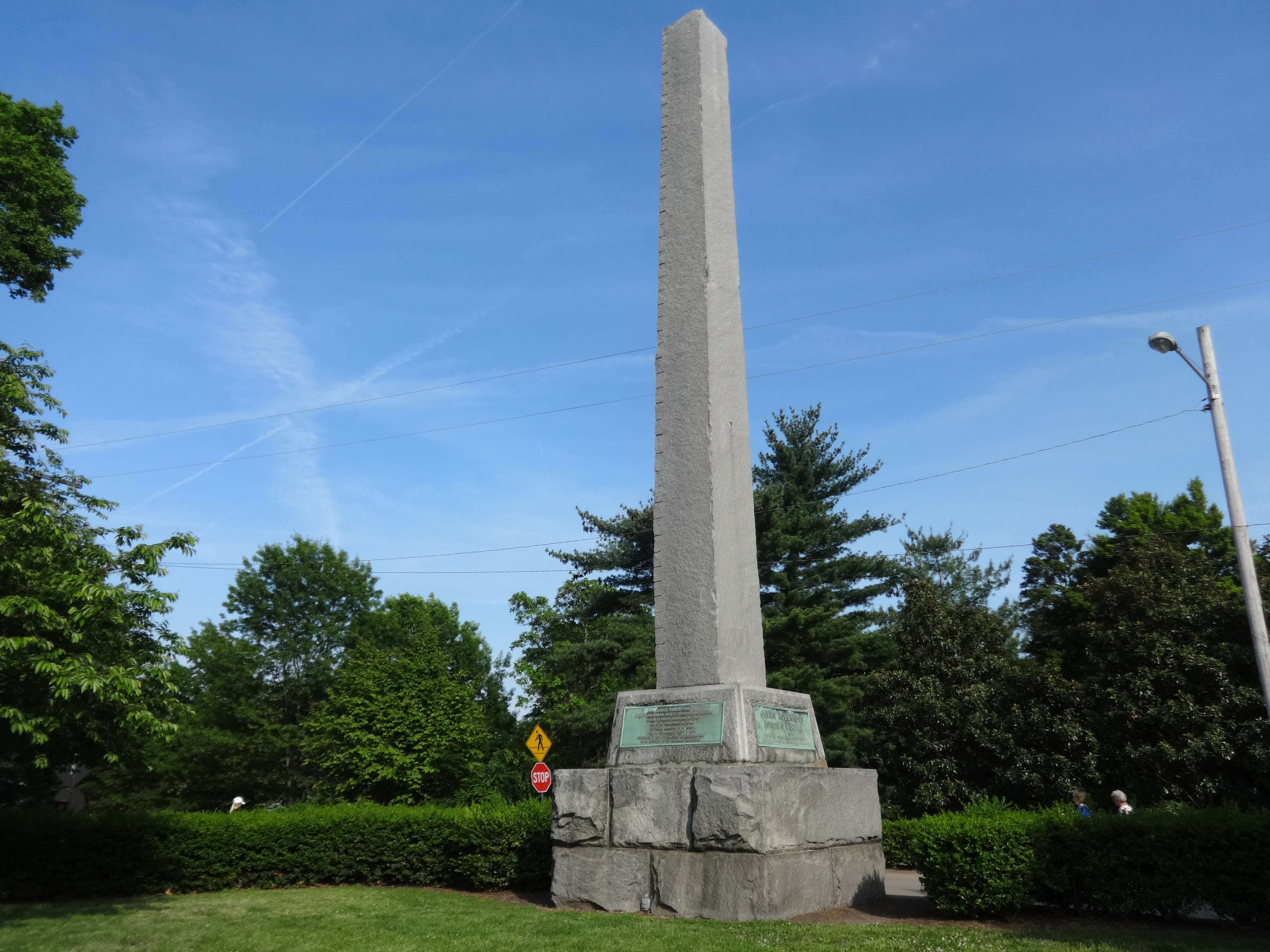 Centennial Park, Nashville, Davidson County, Tennessee